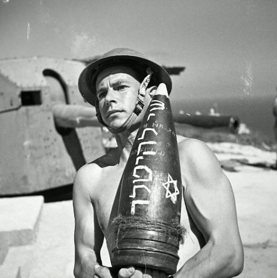 Joseph Wald, Jewish Brigade - Text: Gift to Hitler